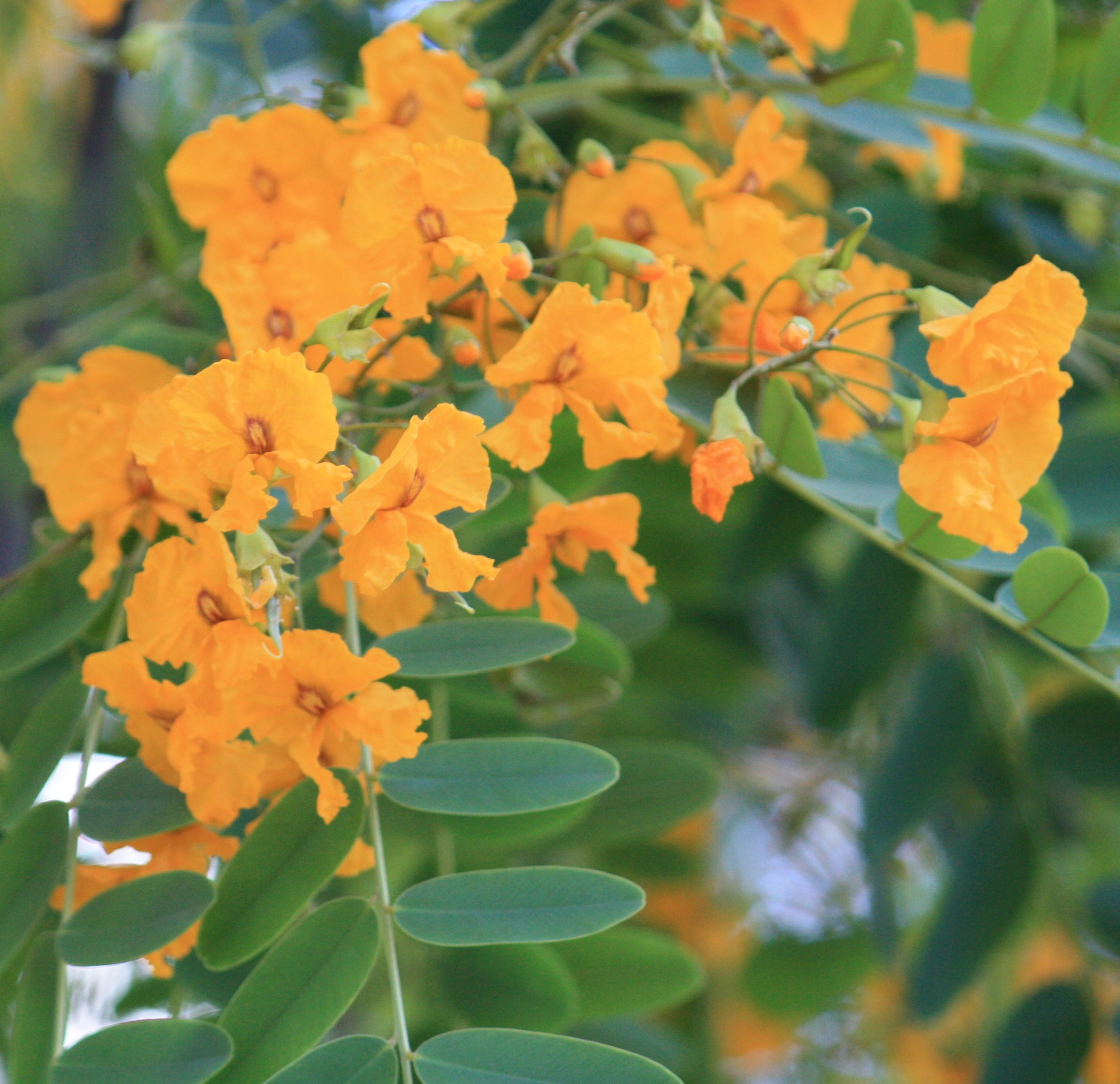 Tipuana tipu This tree is on the Alert List for Environmental Weeds, a list of 28 non-native plants that threaten biodiversity and cause other environmental damage in Australia. Although only in the early stages of establishment, these trees have the potential to seriously degrade Australia's ecosystems. Tipuana has been planted all over the world as an ornamental street tree and garden plant. It is also valued as a shade tree - here it is planted in a school playground. In Australia it was originally planted in the 1970s in Queensland's suburban gardens and streets. It is popular in the Queensland pastoral industry for fattening stock during the winter period, and for its shade value.